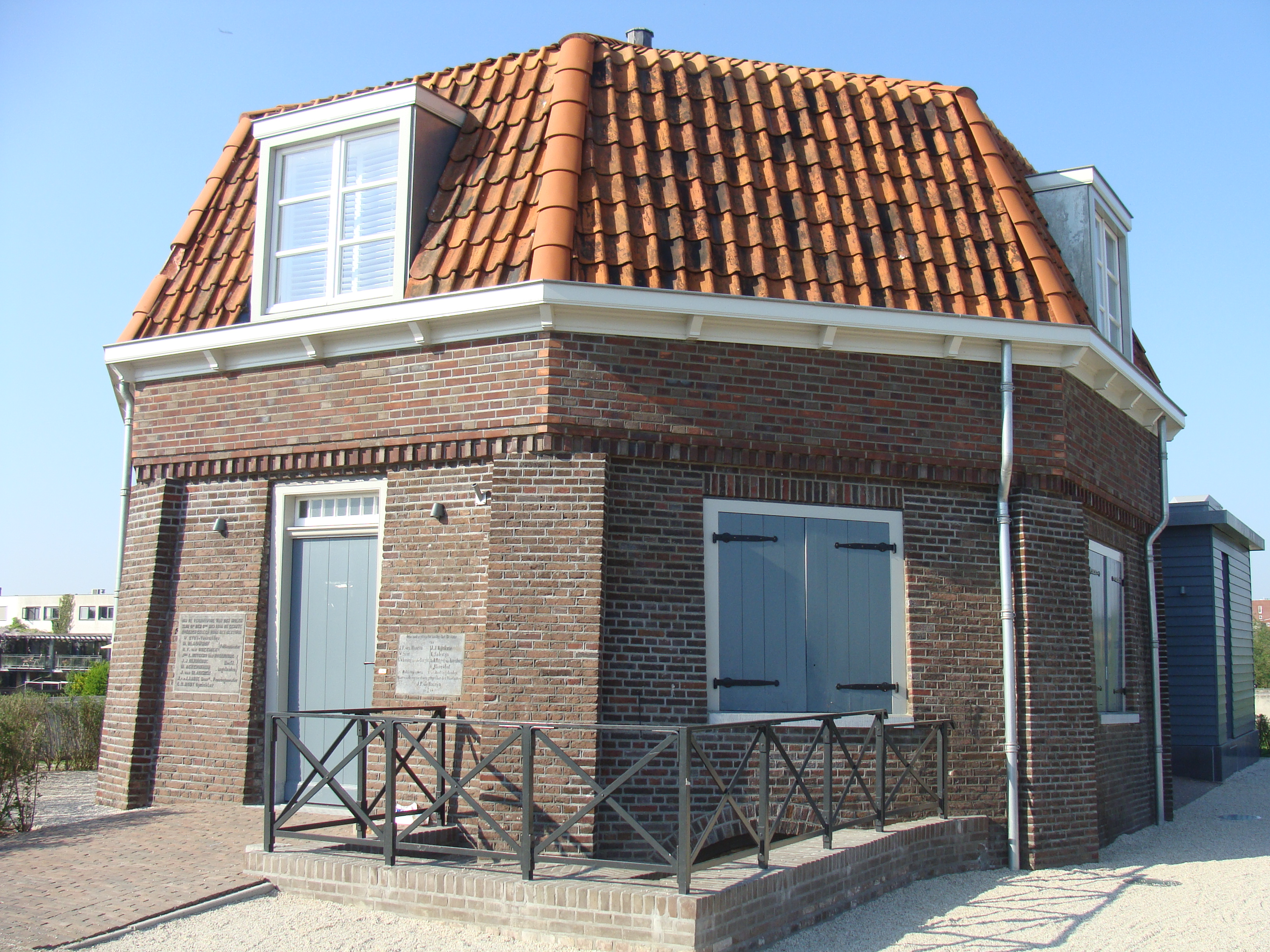 The Akermolen, a former windmill, later pumping station, near Amsterdam